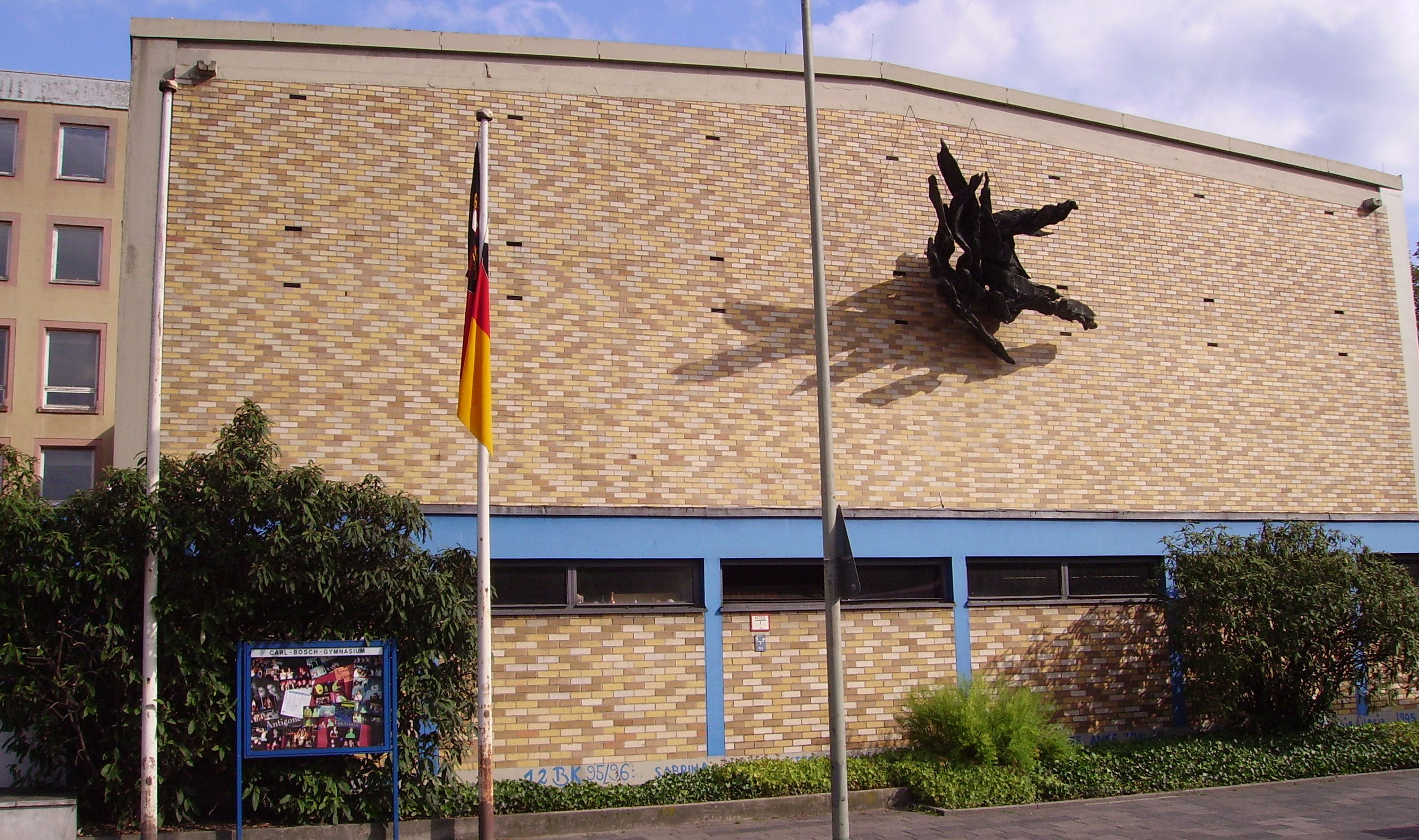 school in Ludwigshafen, Germany